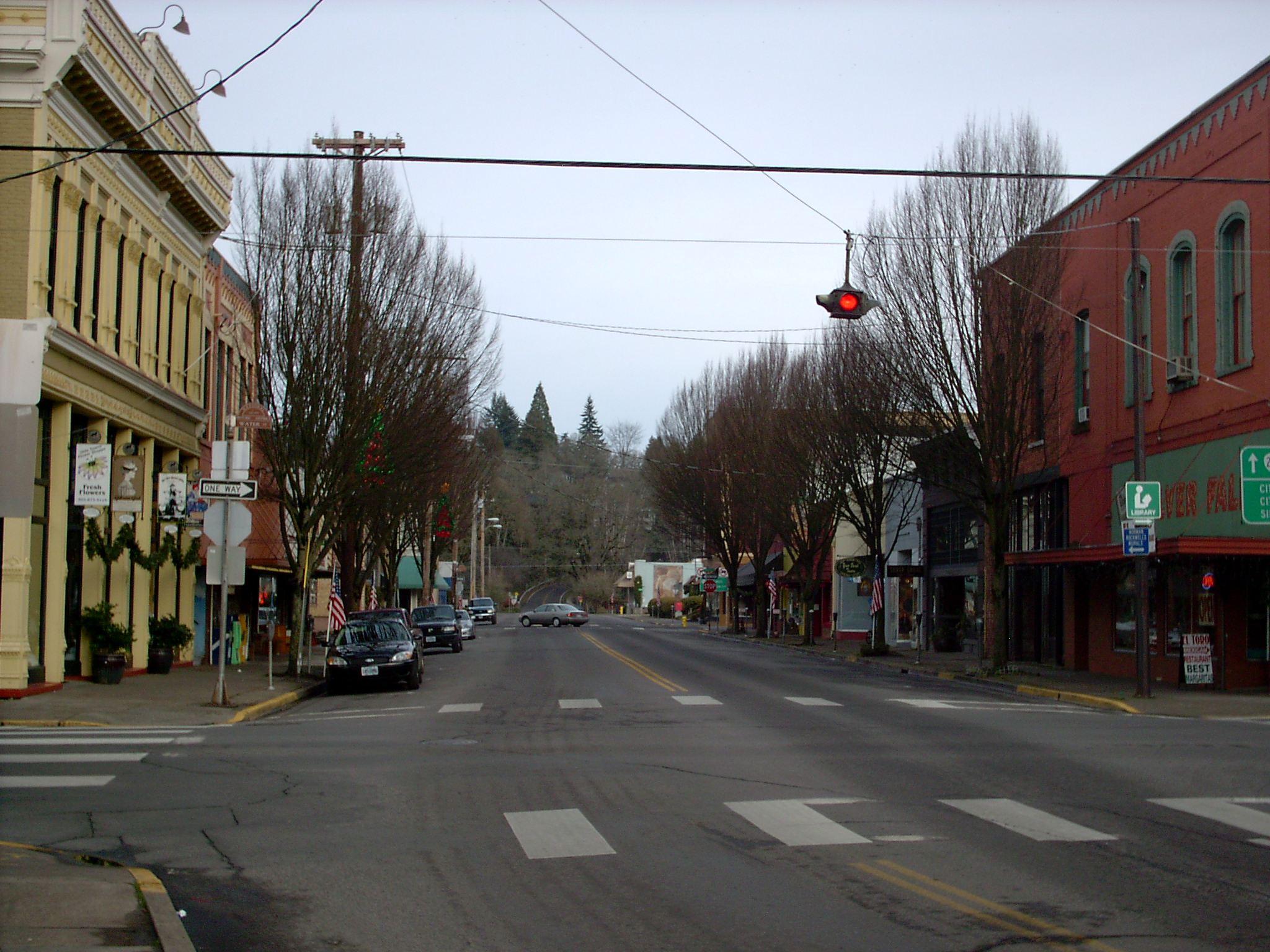 A view east down East Main Street in downtown Silverton, Oregon, United States, from the Main Street bridge over Silver Creek.